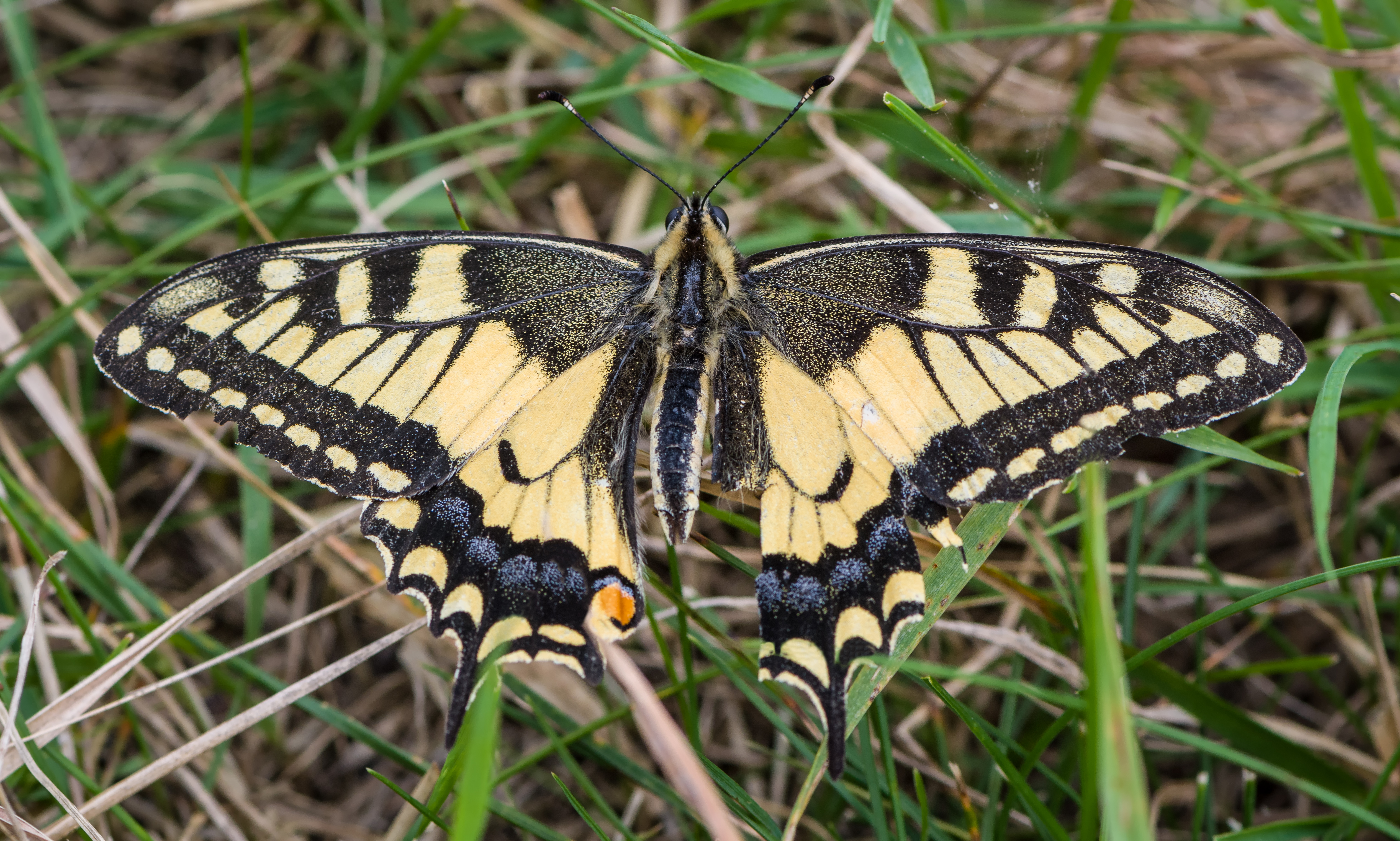 Old World Swallowtail (Papilio machaon) on the Desenberg near Warburg